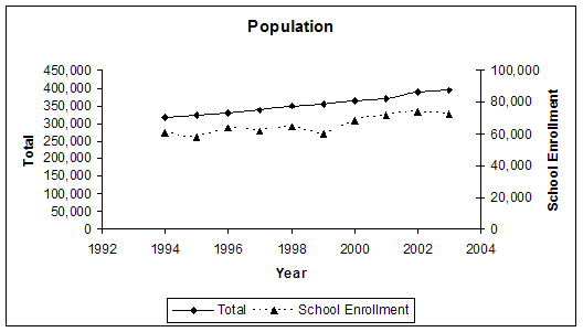 Seminole County Population.